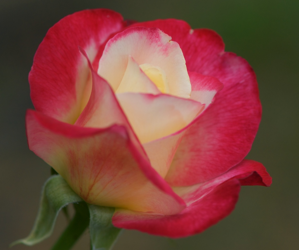 Double Delight. A Tudor coloured red and white rose.